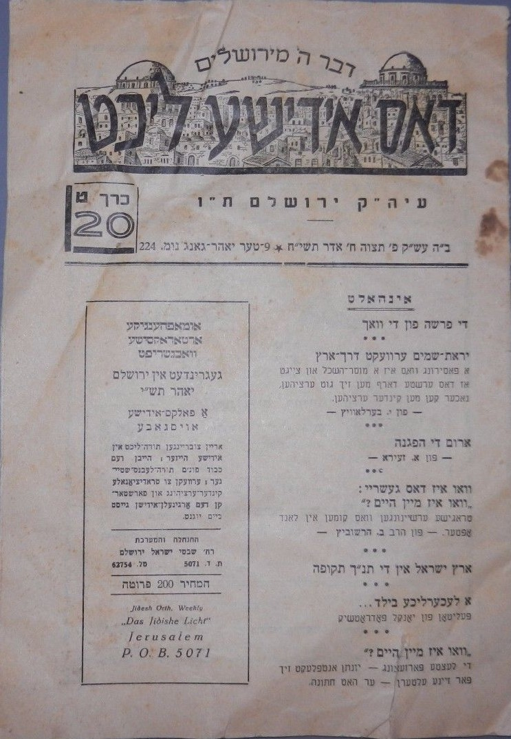 jewish judaica rabbi newspaper dos yiddishe licht jerusalem 1958 orthodox weekly